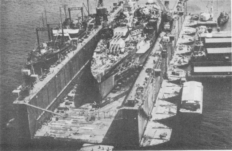 USS Artisan (ABSD-1) with USS California (BB-44) in the dock, at Espiritu Santo, New Hebrides Islands, circa 8 September 1944.